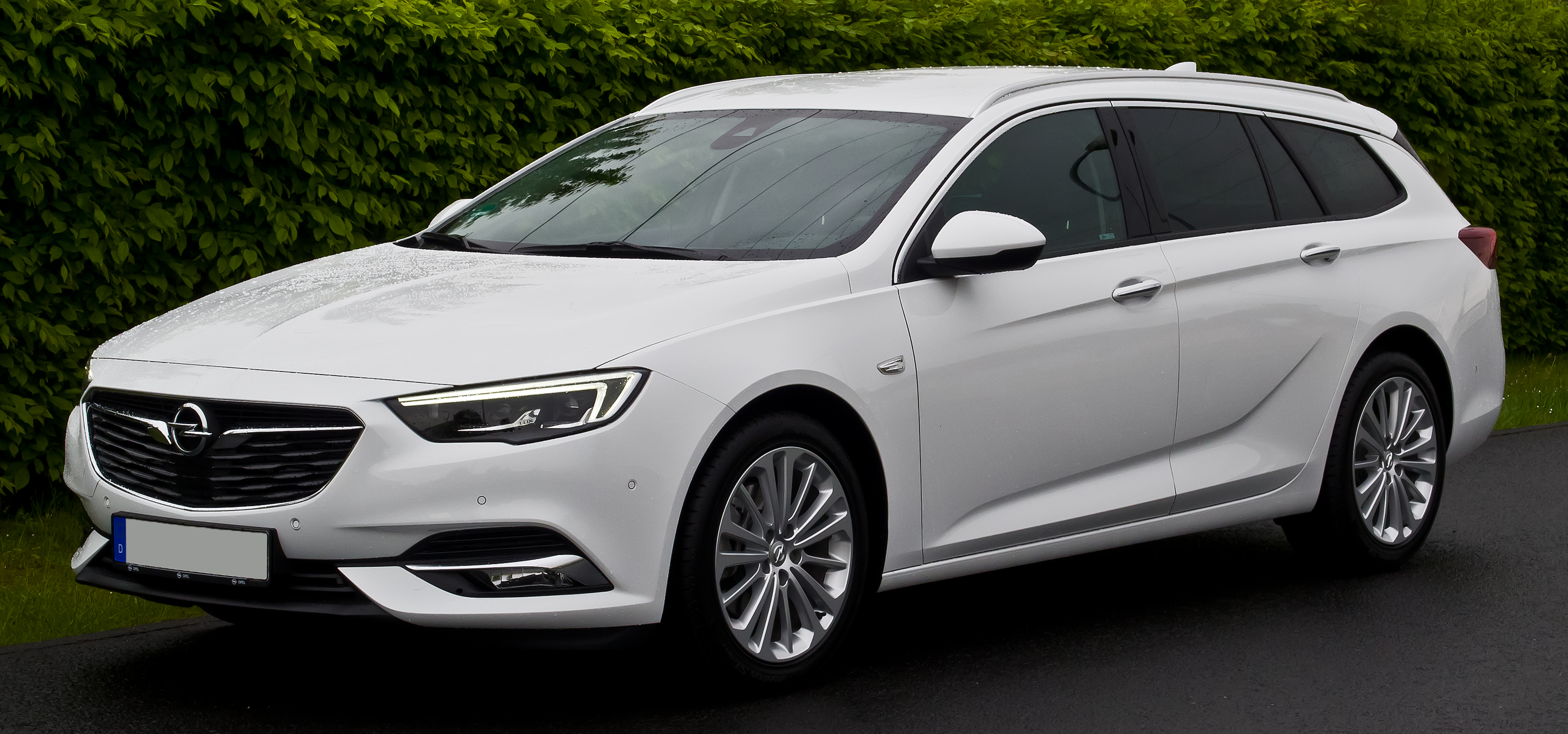 Opel Insignia Sports Tourer 1.5 DIT Innovation (B)